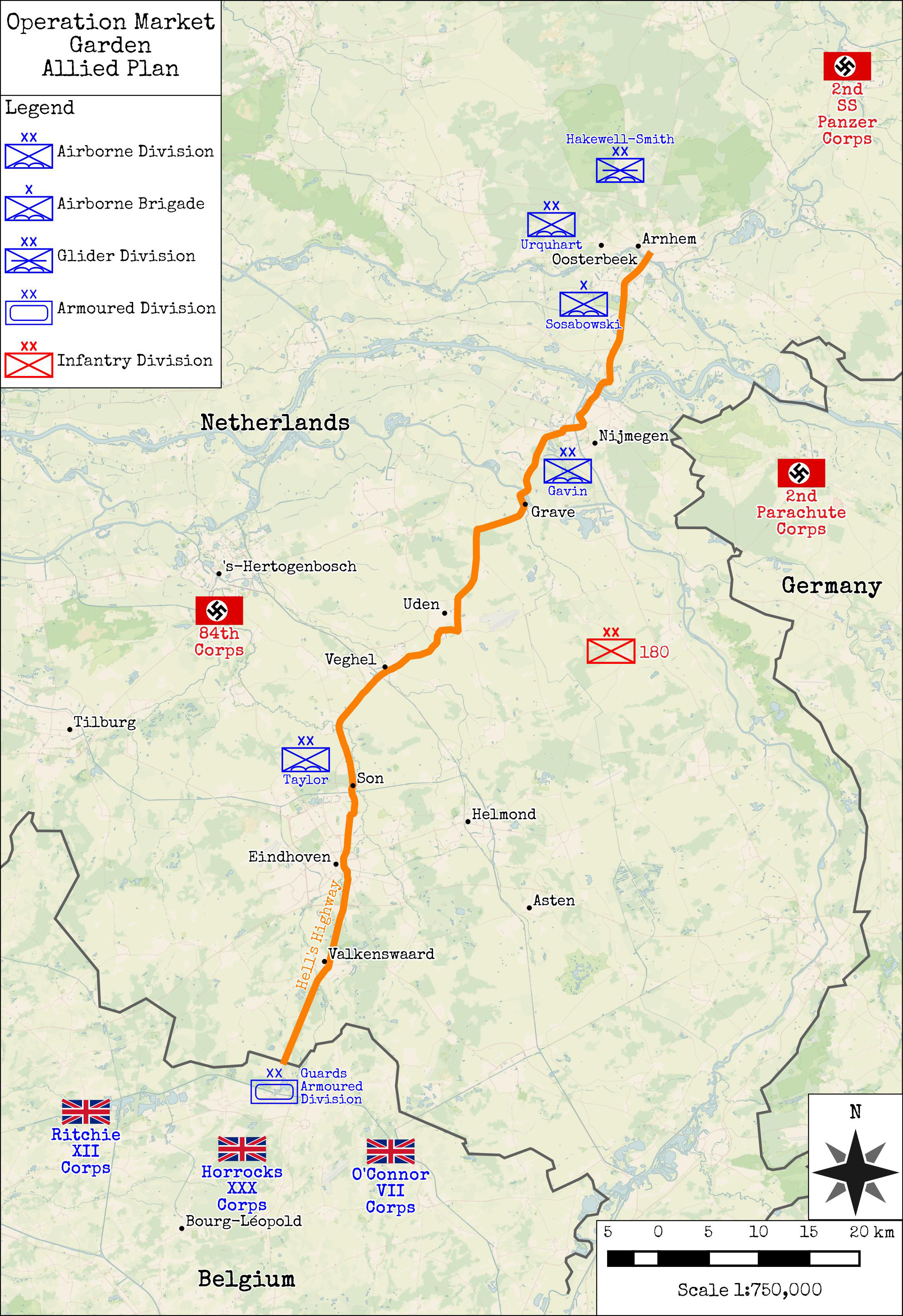 WGS 84 coordinate system